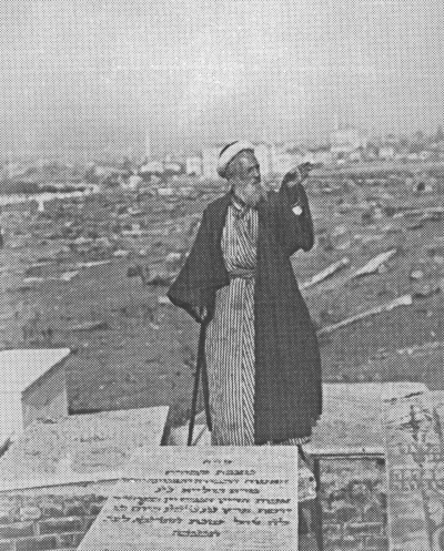 A rabbi makes a traditional visit to the cemetery. Salonica